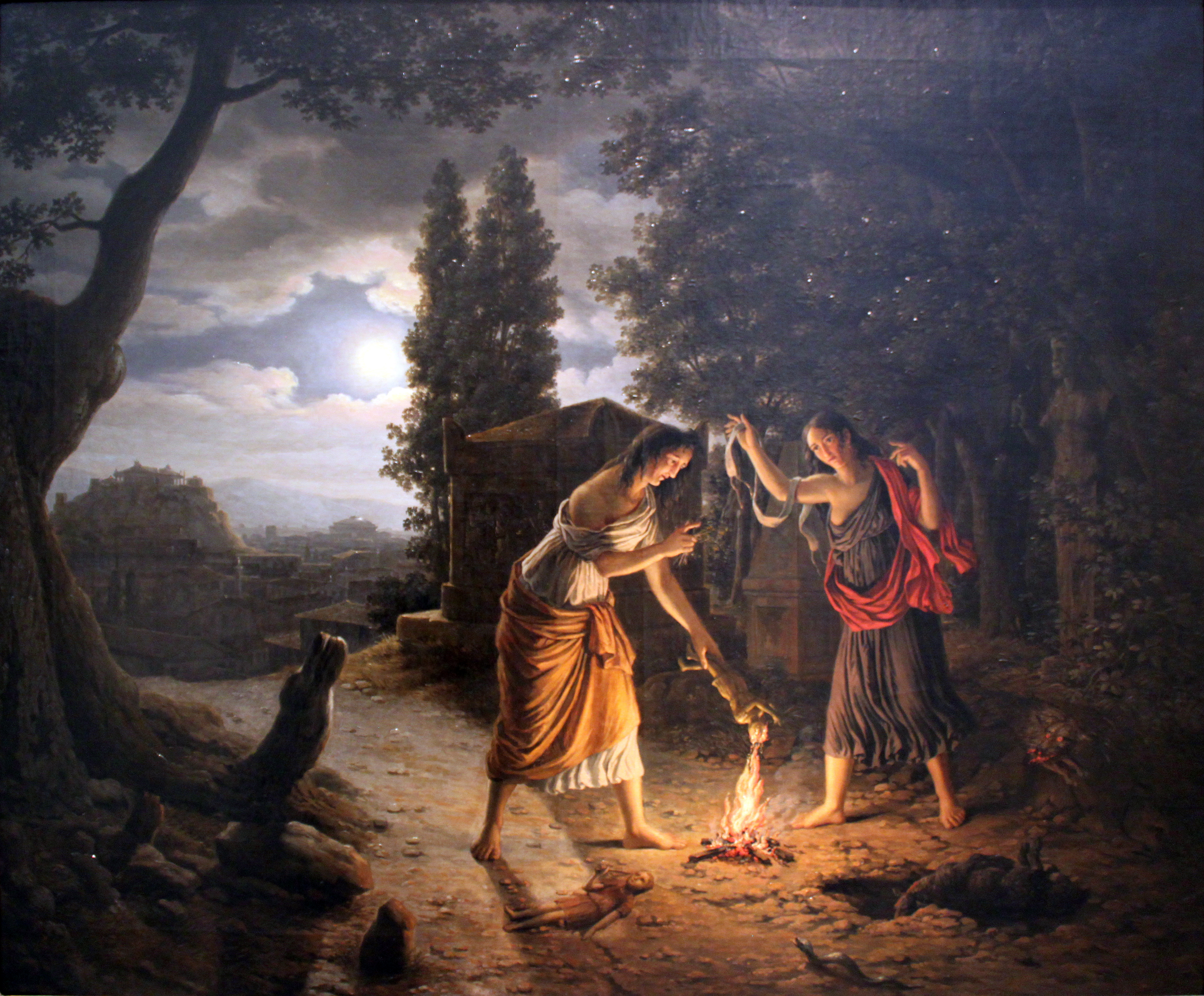 Roman Love Spells